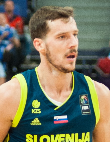 EuroBasket 2017 Group A game between Finland and Slovenia at Hartwall Arena in Helsinki, Finland.